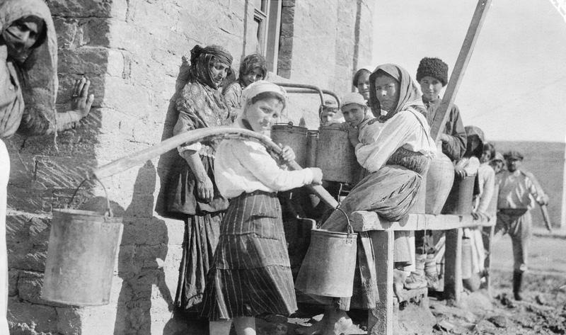 A line of civilians queuing for their water ration in Baku in 1918.